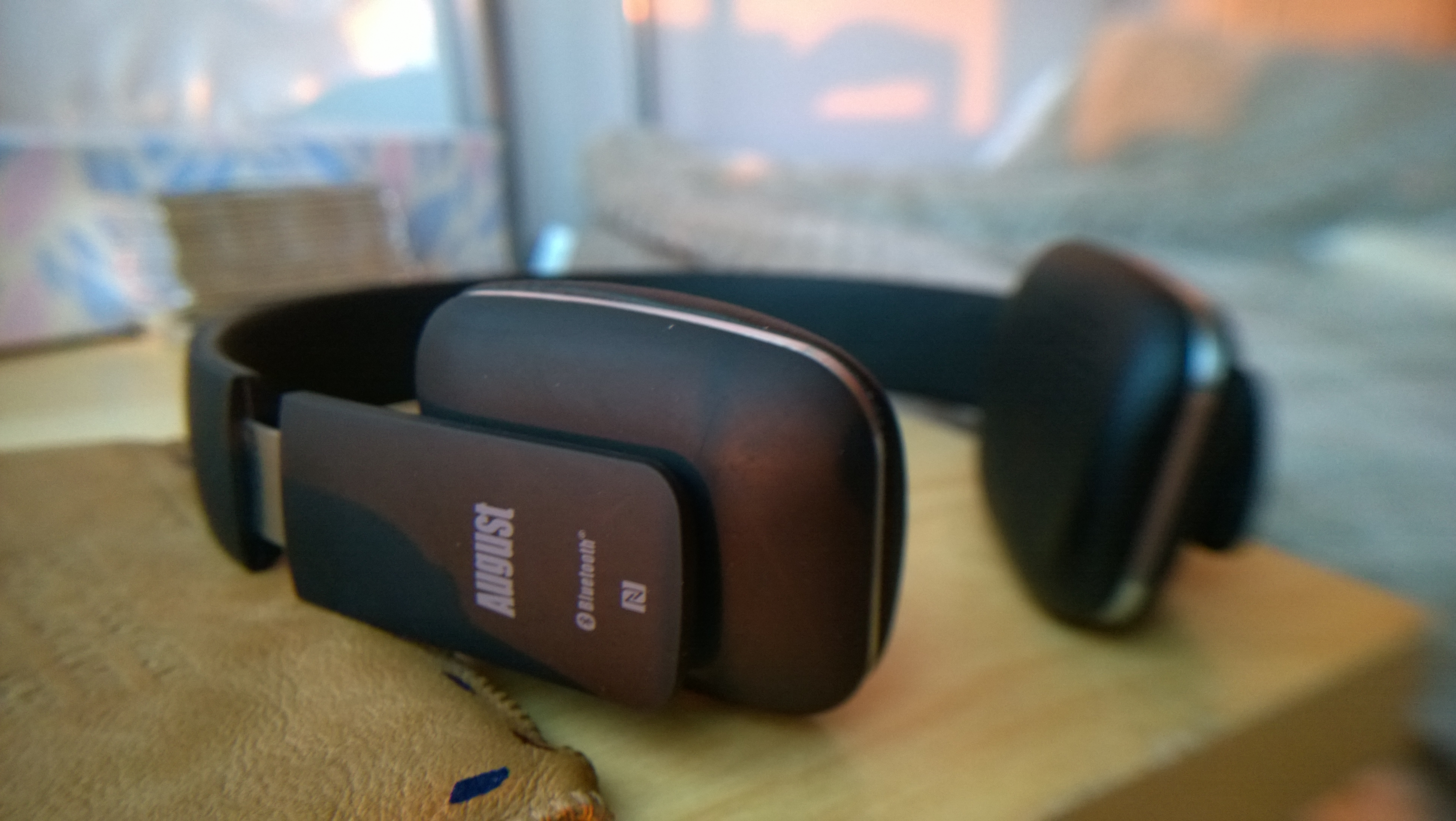 Close up of August Headphones